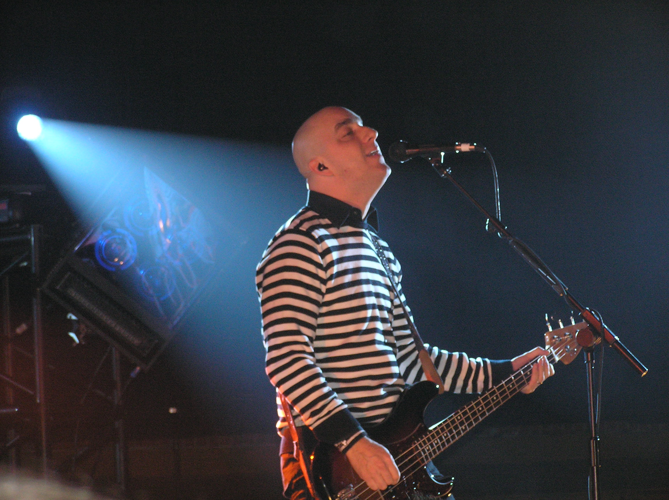 Dan Andriano @ Sheffield Uni, Feb 25th 2006 User:Matt Skiba took this picture himself at the concert.